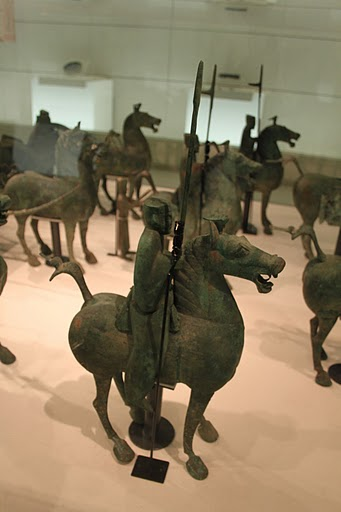 An assortment of bronze figurines excavated from a Chinese Eastern Han tomb, dated 1st or 2nd century AD, depicting military cavalry and spoke-wheeled chariots.